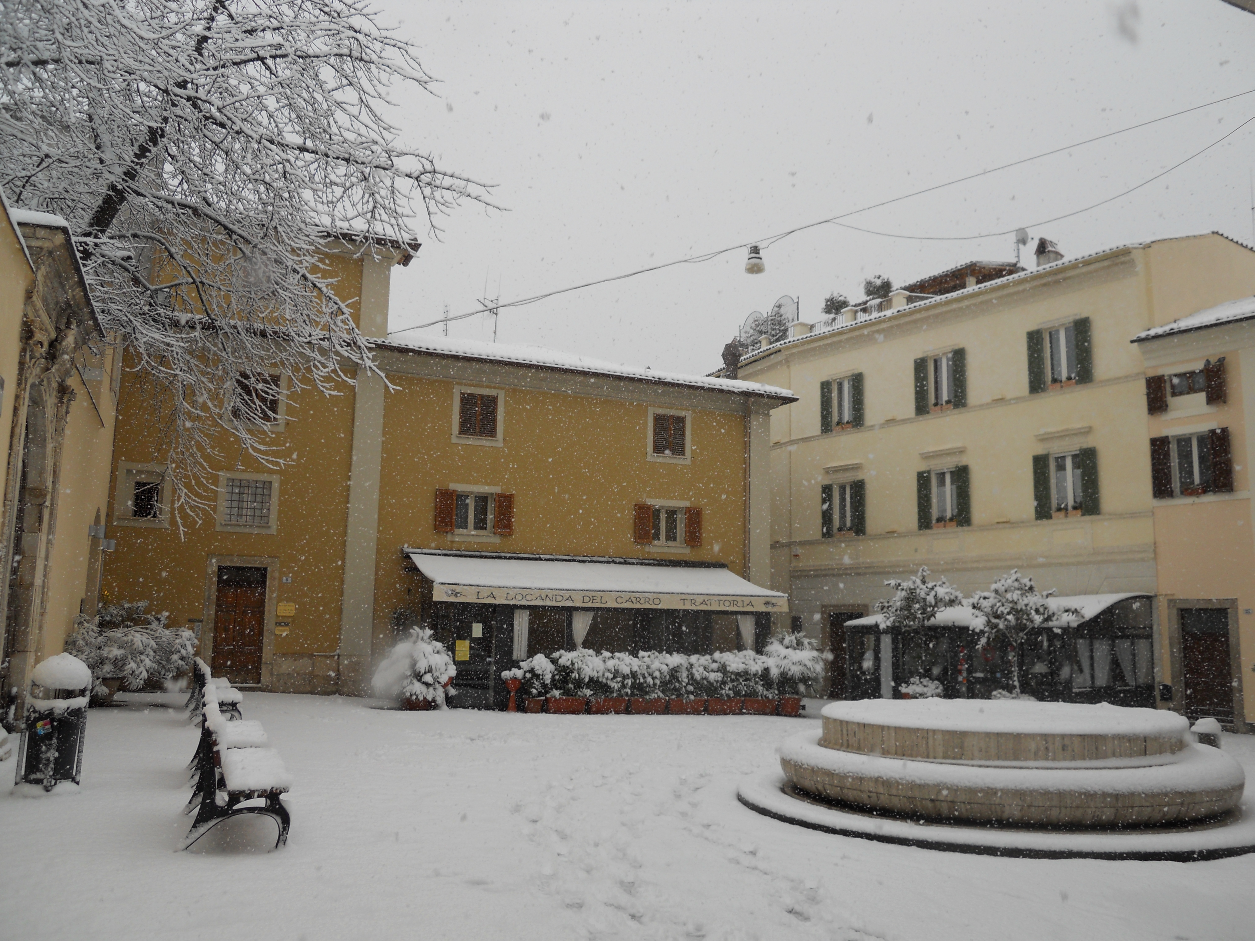 St. Rufo square during 3rd february 2012 snowfall - Rieti, Italy